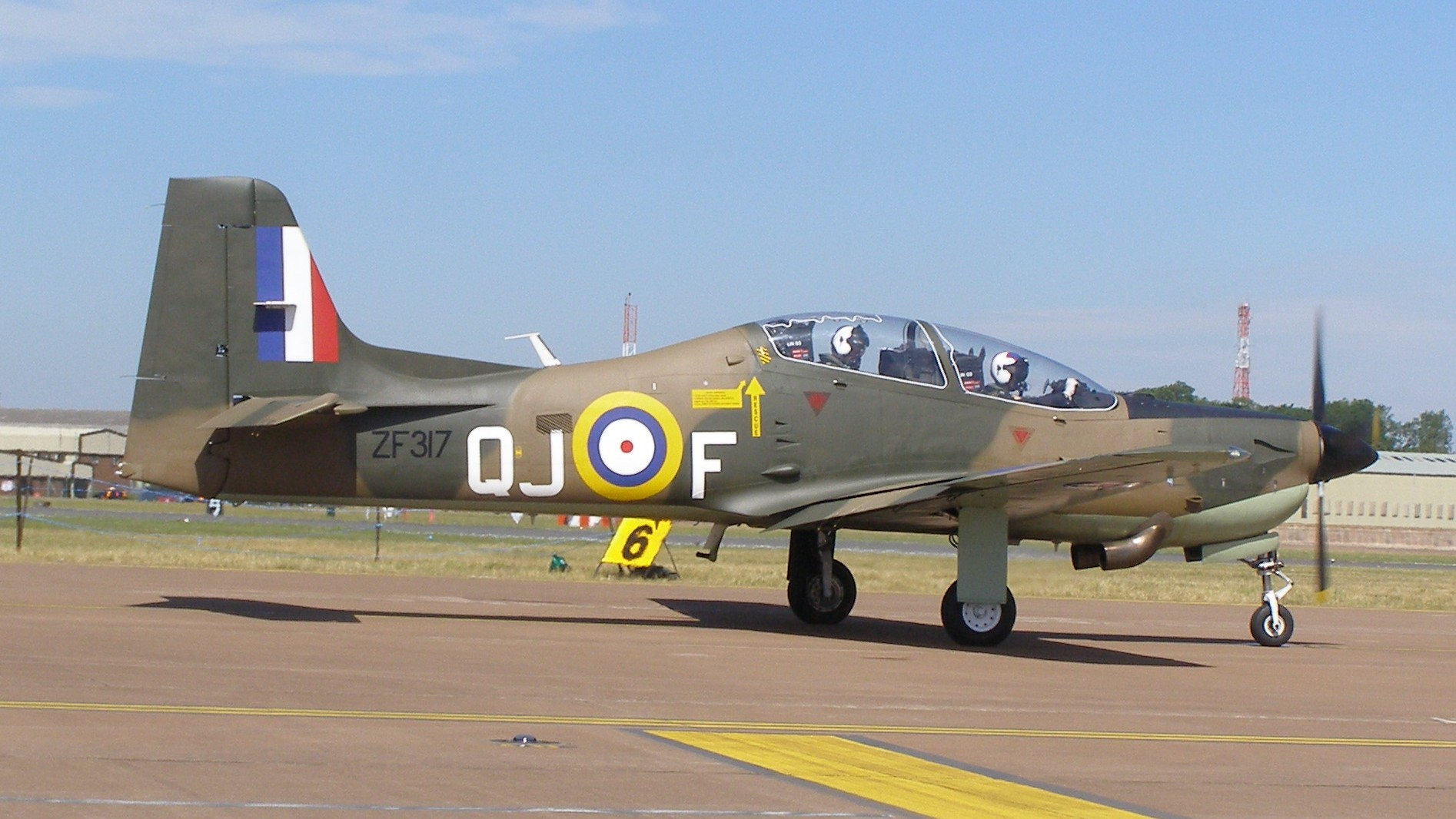 Royal Air Force Short Tucano T1 at the 2010 Royal International Air Tattoo, Fairford. Special paint scheme for the 70th Anniversary of the Battle of Britain, representing a Spitfire of 92 Squadron in 1940 flown by Flt Lt Brian Kingcombe